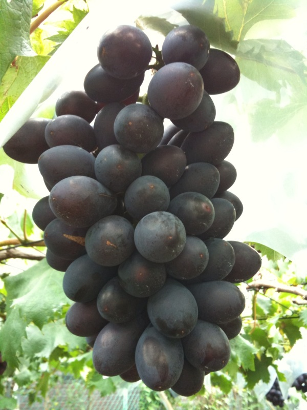 Takao, one of the grape species developed in Japan.